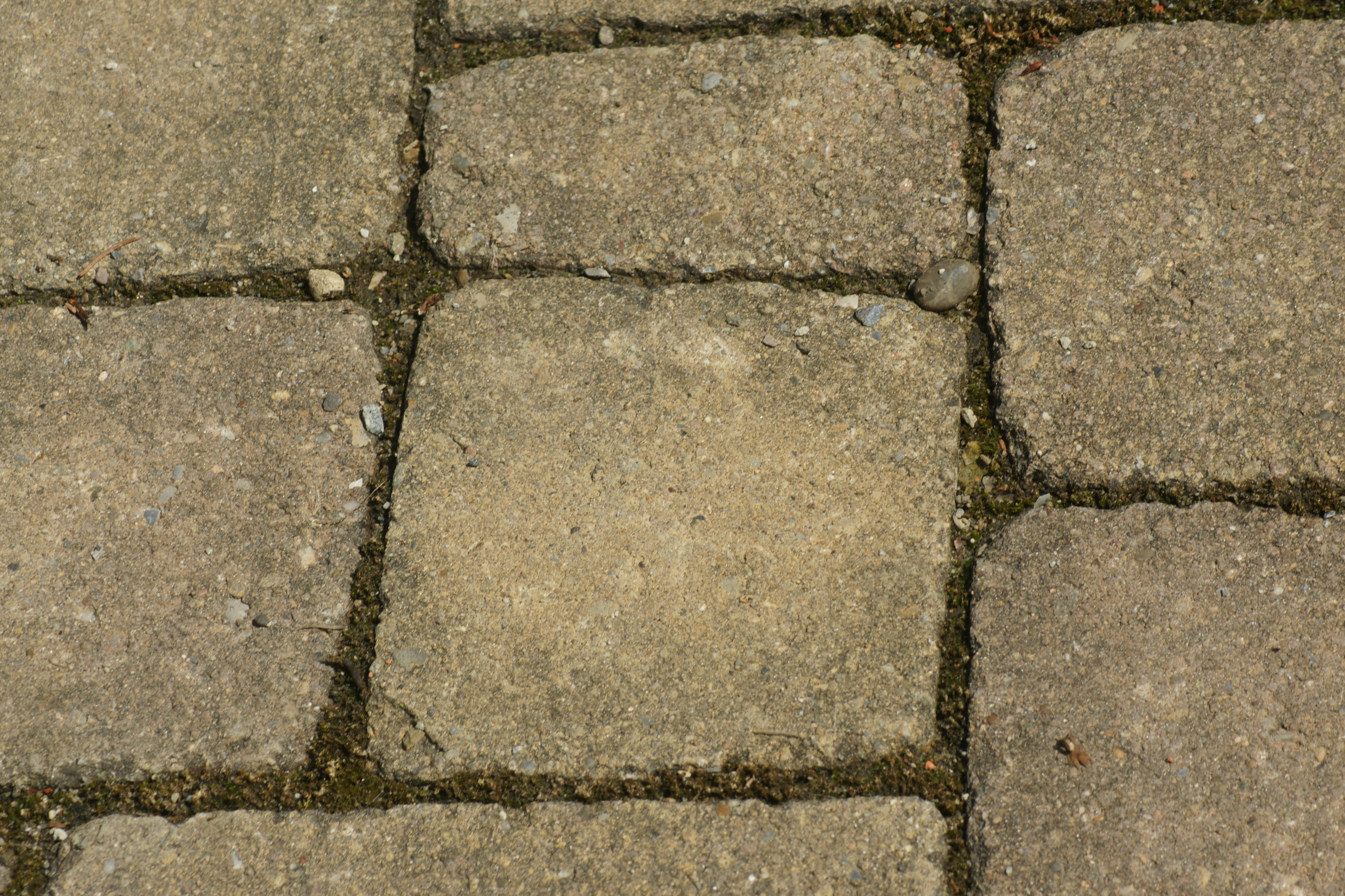 Pflastersteine Stones